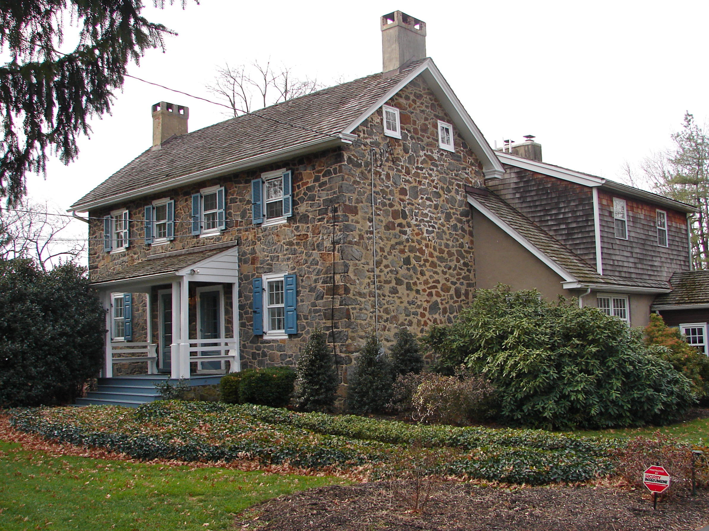 William Talley House on the NRHP since February 21, 1985. At 1813 Foulk Rd. (north of) Wilmington, Delaware.